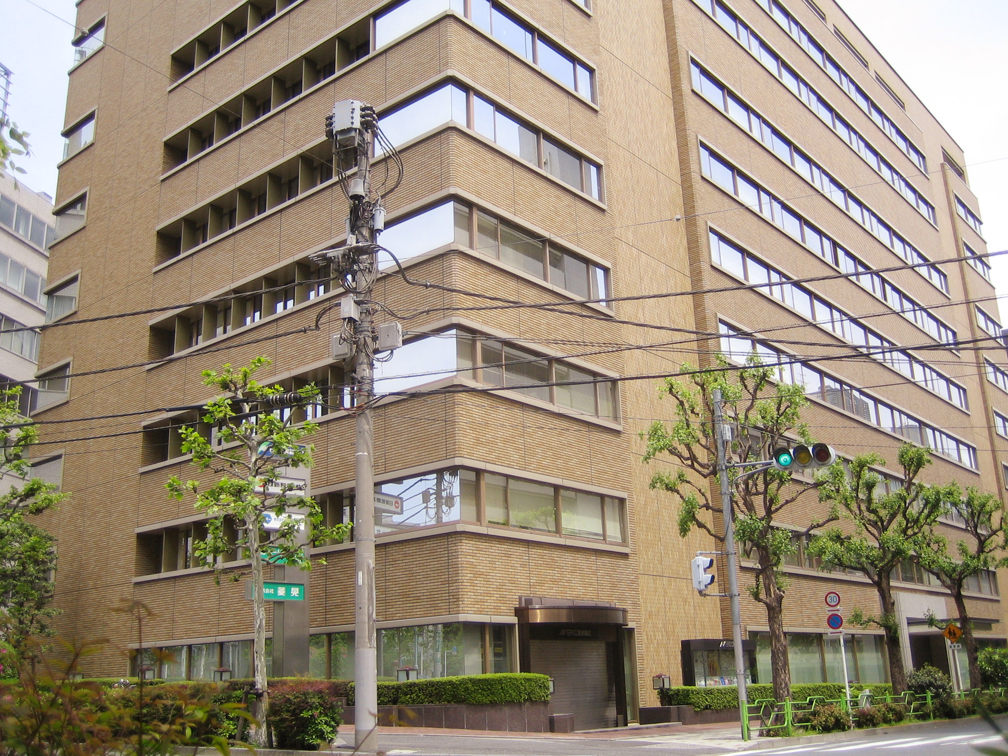 Nikkan Kogyo Shimbun, Ltd. (日刊工業新聞社), Chuo, Tokyo, Japan